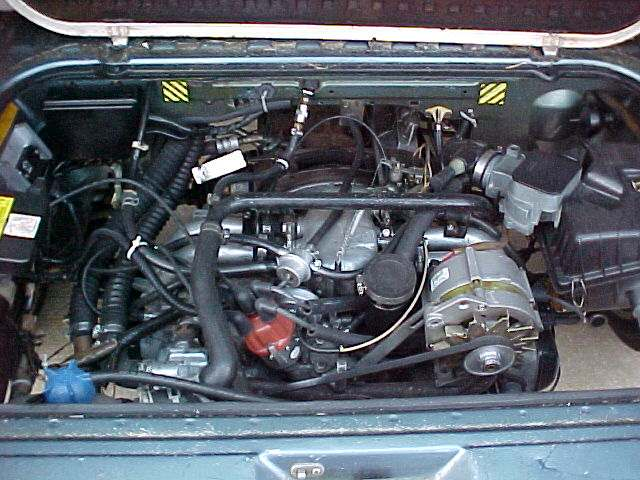 Volkswagen Wasserboxer engine. I took this photo, and release all rights.